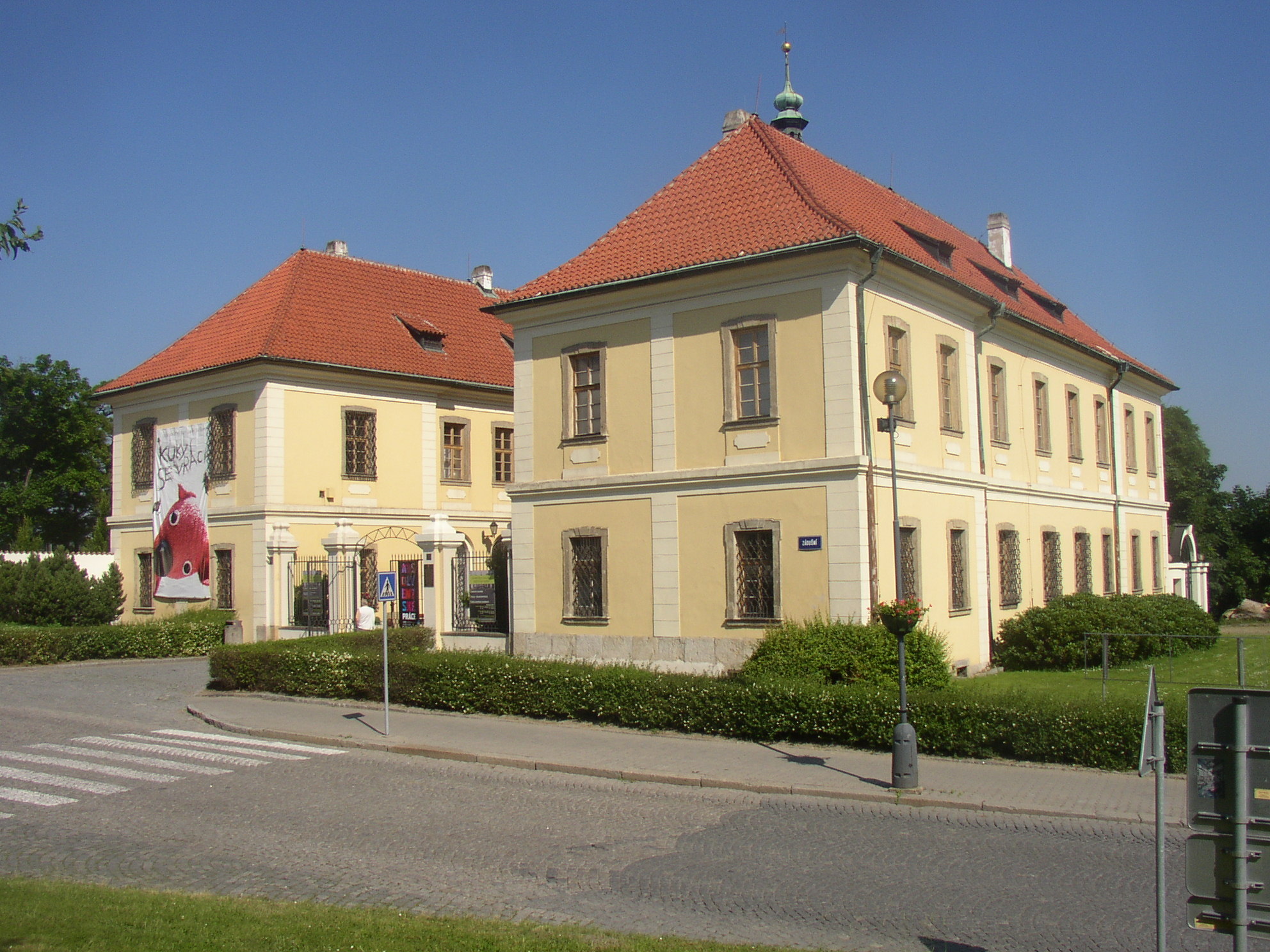 Chateau in Kladno, Central bohemian Region, Czech Republic. General view from the southeast. Originally a Renaissance chateau which replaced an older Gothic fort. Its current shape dates from early 18th century, when it was rebuilt in Baroque style by Kilián Ignác Dientzenhofer for abbots of Břevnov-Broumov Monastery. The interiors contain St. Lawrence Chapel with rich bBaroque decoration. Nowadays the chateau houses an art gallery and city library.